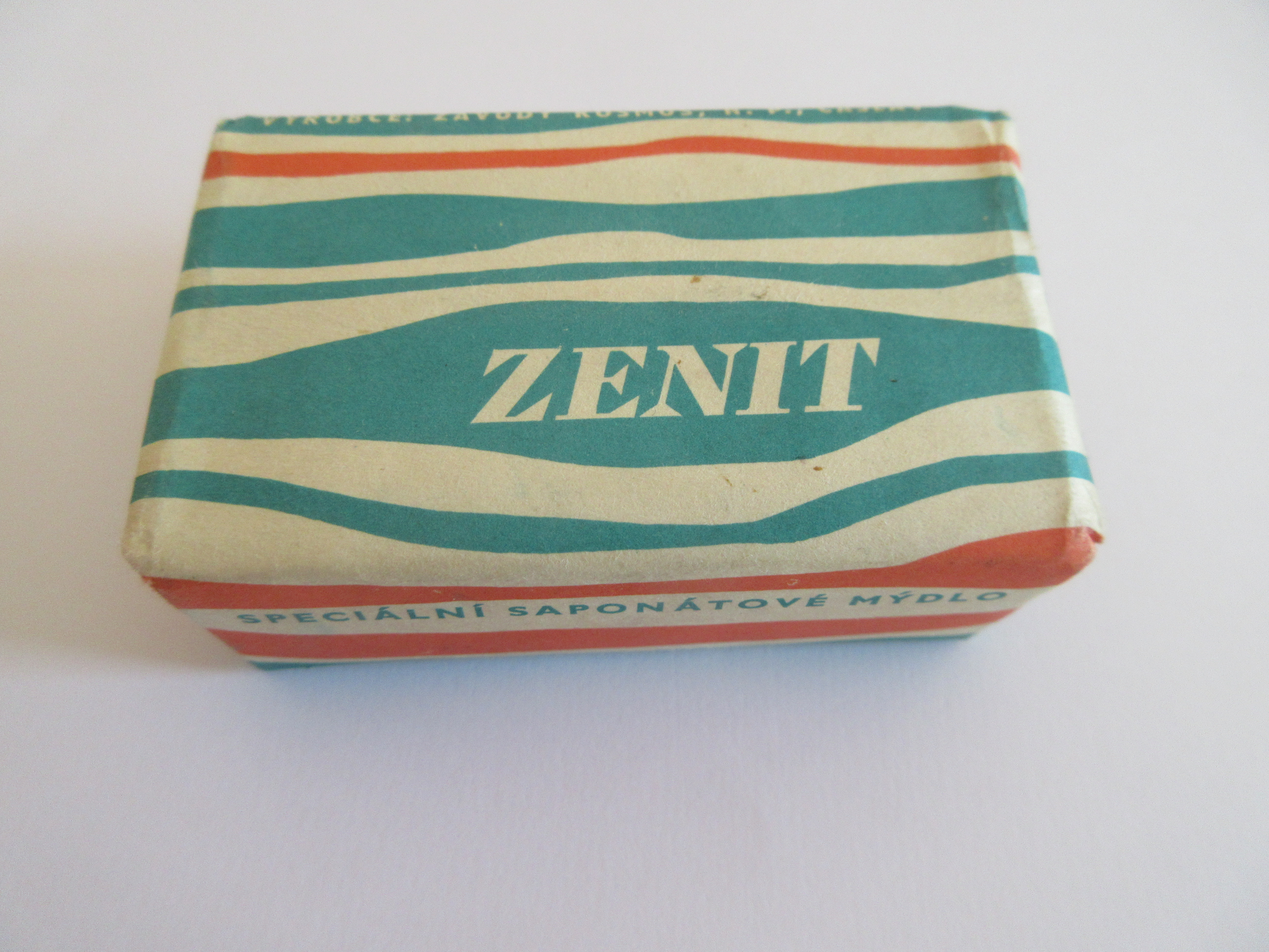 Historical soap Zenit, special saponate soap; Made by Závody Kosmos Čáslav, n.p., Czechoslovakia, sale price 4 CSK